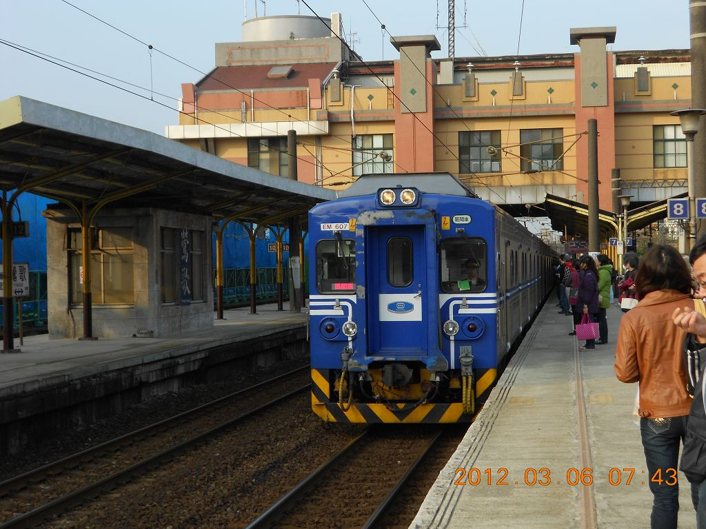 TRA Train No.1152, Local Train to Keelung Station, EMU607+606, at Yinnge Station.